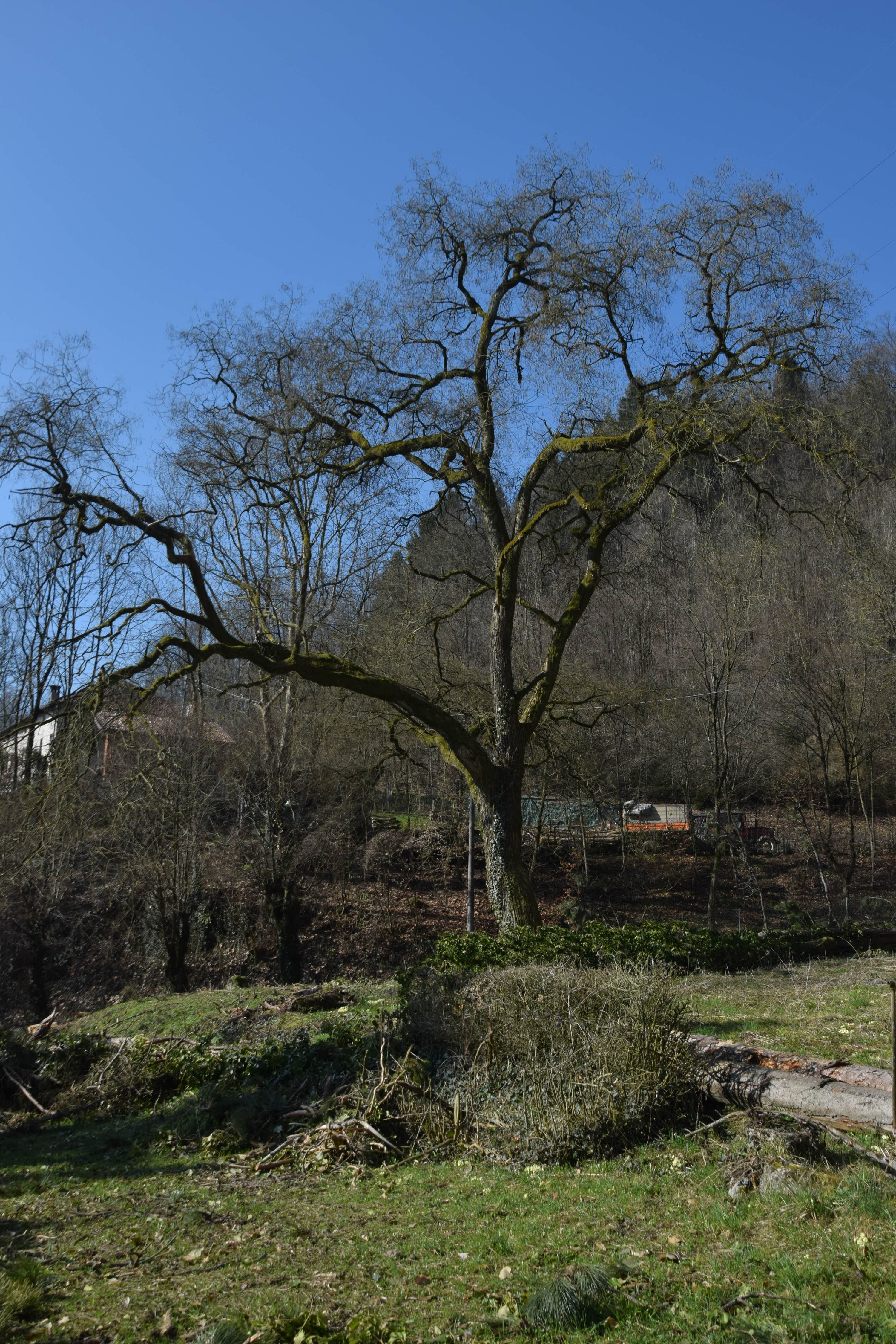 albero di villa bellati